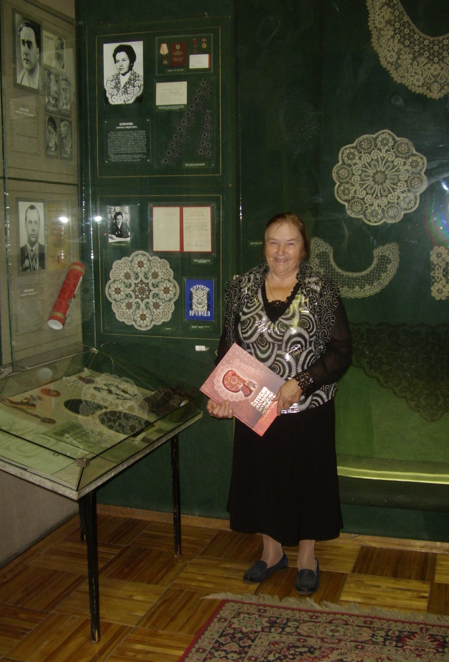 Anfisa Fyodorovna Blinova — the artist of a lace, the winner of the State award of Russia of Repin name, 1936 of the river.